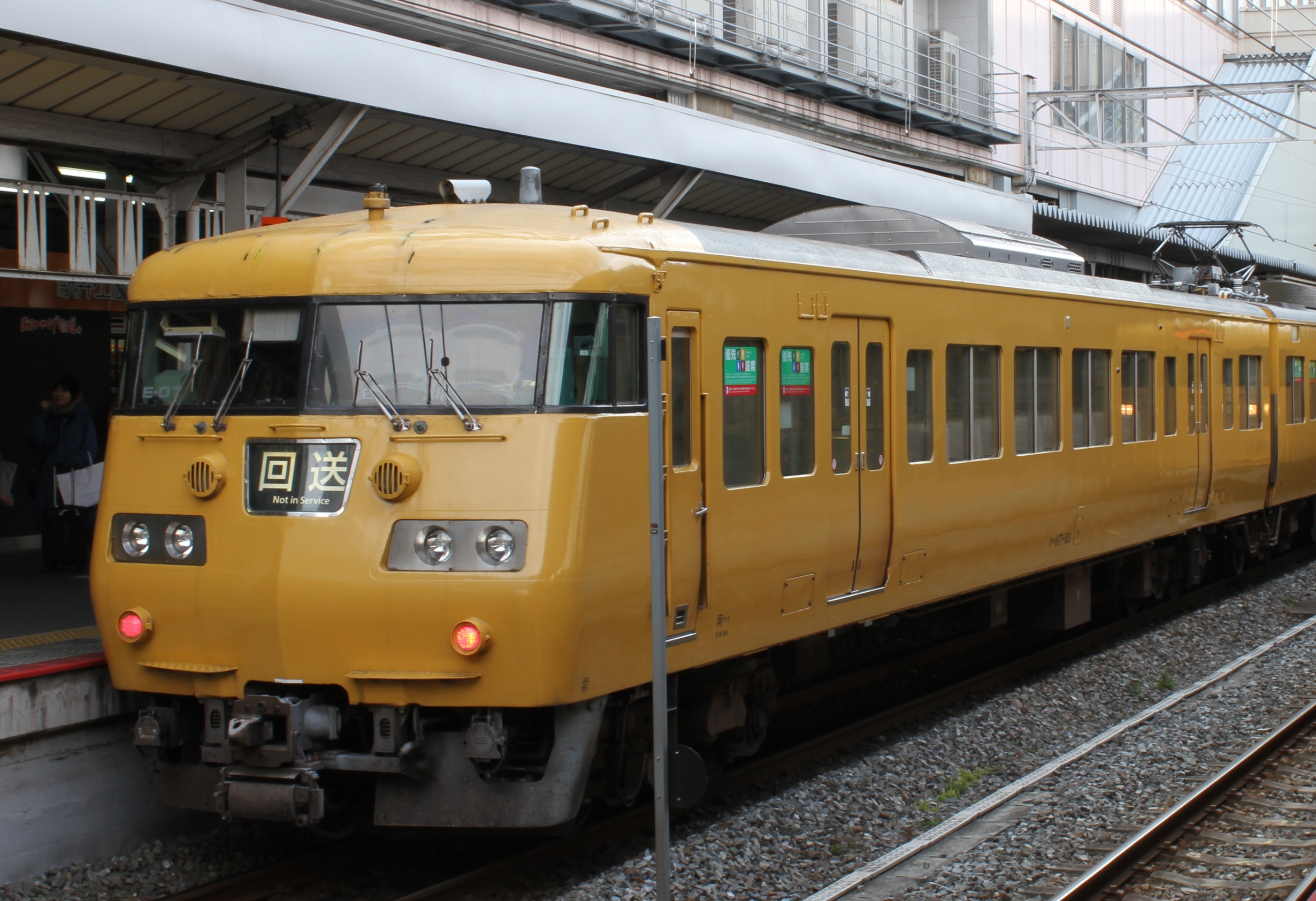 JR West 117 series EMU set E-07 at Okayama Station